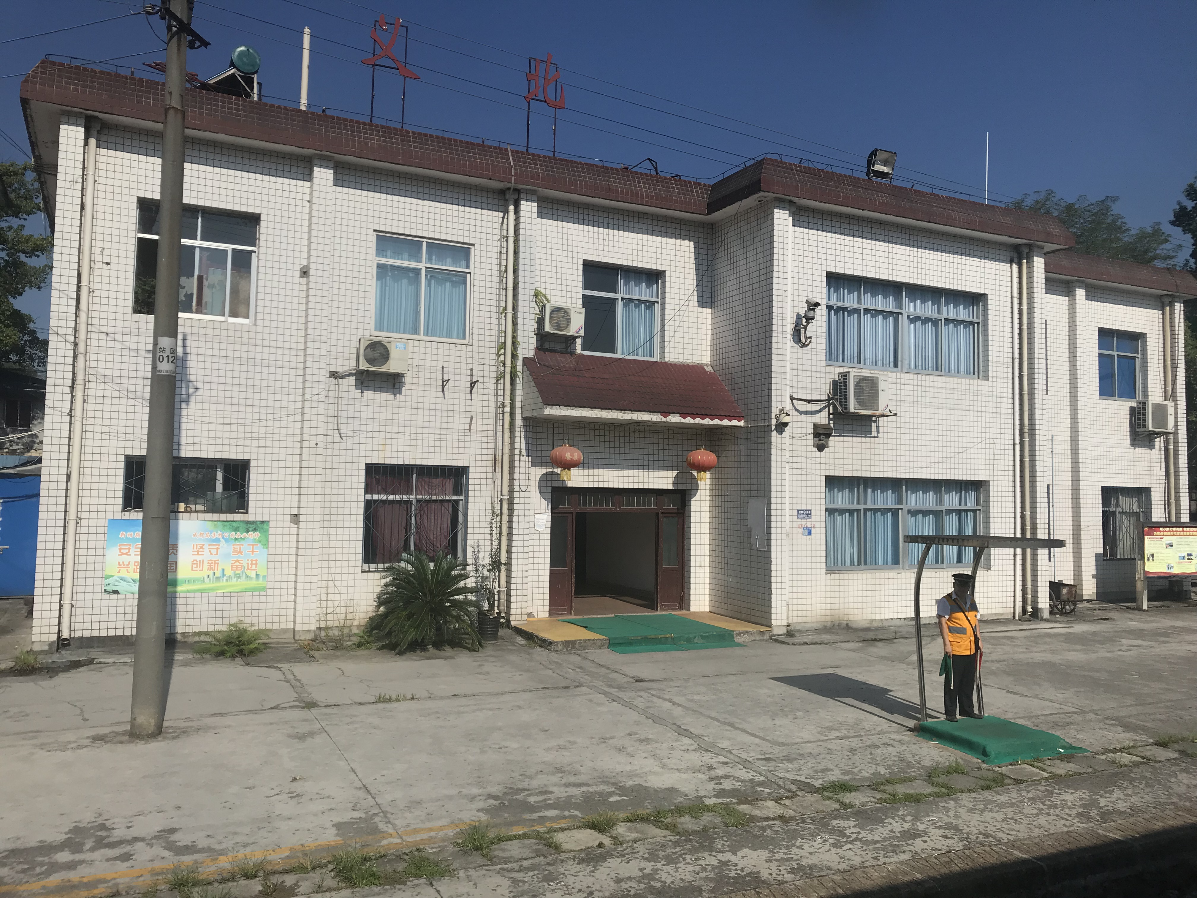 Which will also be closed soon